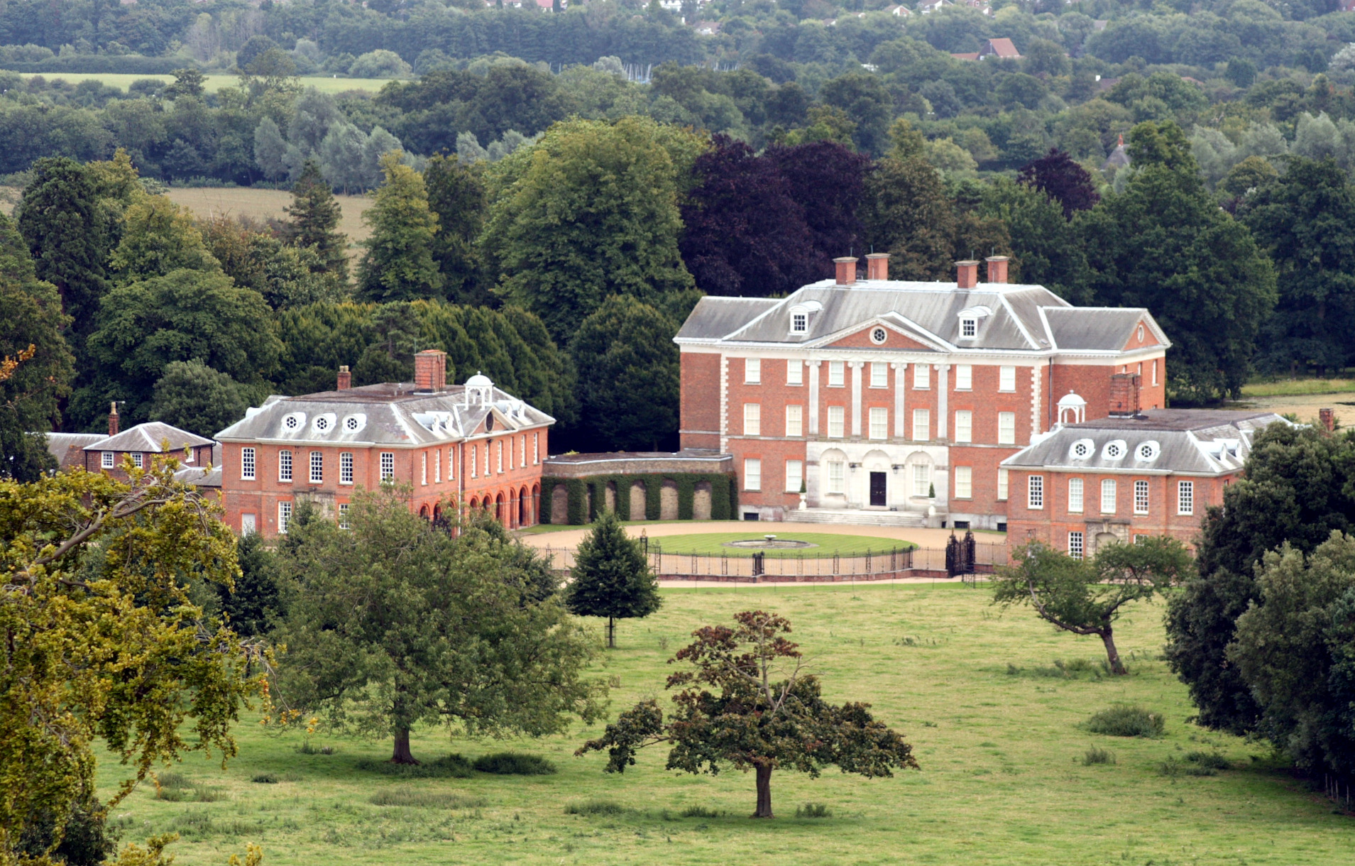 Chevening House - UK government property